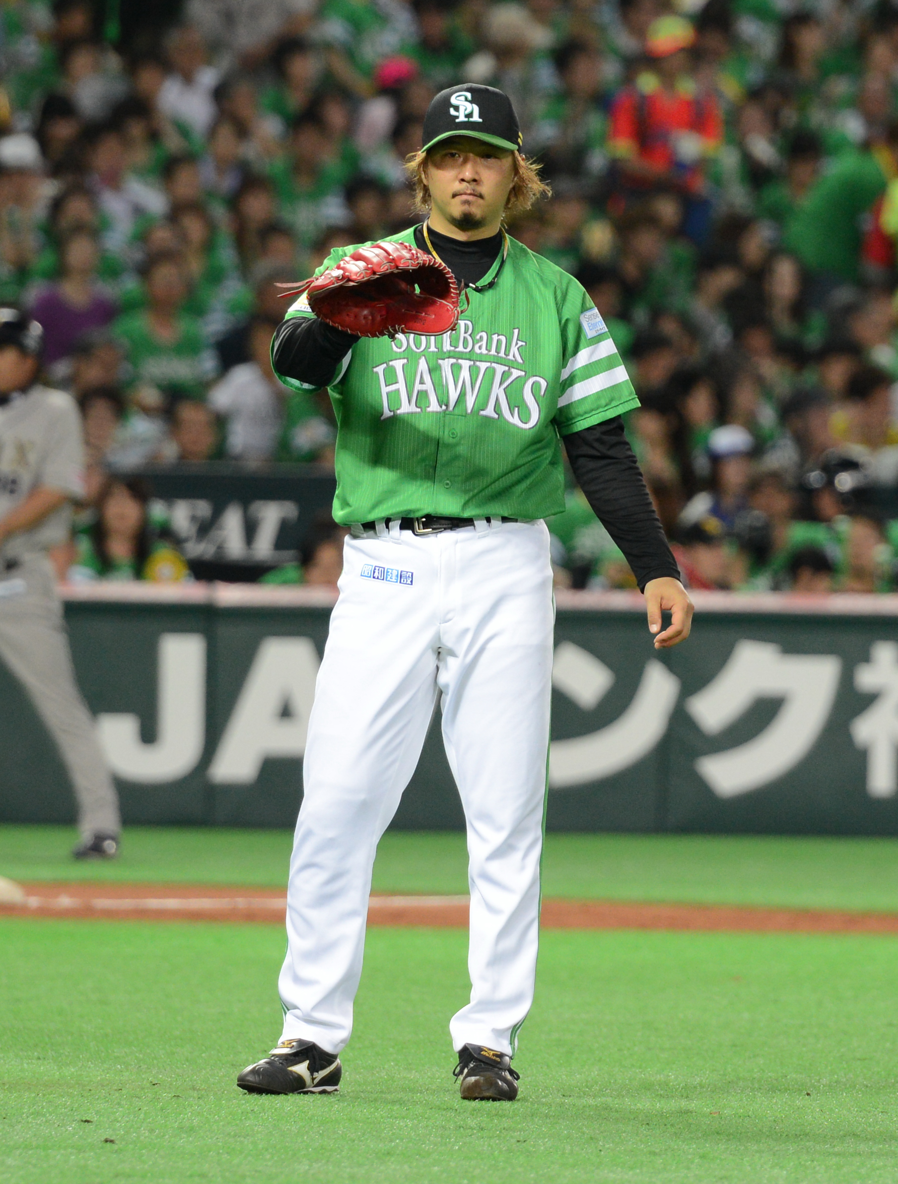 Hideki Okajima, pitcher of the Fukuoka SoftBank Hawks, at Fukuoka Dome.